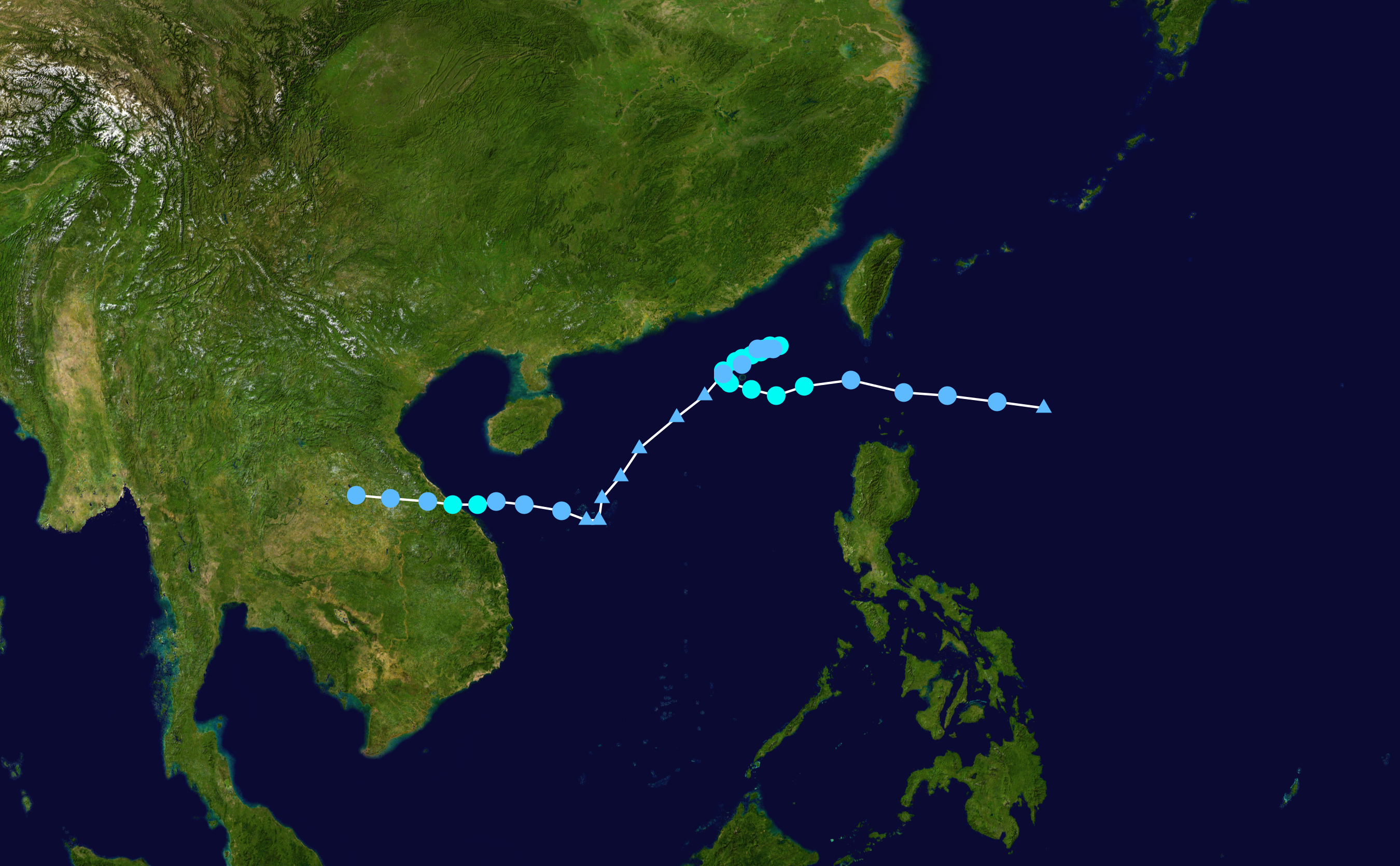 Track map of Severe Tropical Storm Aere of the 2016 Pacific typhoon season. The points show the location of the storm at 6-hour intervals. The colour represents the storm's maximum sustained wind speeds as classified in the Saffir–Simpson scale (see below), and the shape of the data points represent the nature of the storm, according to the legend below. Saffir–Simpson scale Tropical depression≤38 mph≤62 km/h Category 3111–129 mph178–208 km/h Tropical storm39–73 mph63–118 km/h Category 4130–156 mph209–251 km/h Category 174–95 mph119–153 km/h Category 5≥157 mph≥252 km/h Category 296–110 mph154–177 km/h Unknown Storm type Tropical cyclone Subtropical cyclone Extratropical cyclone / Remnant low / Tropical disturbance / Monsoon depression